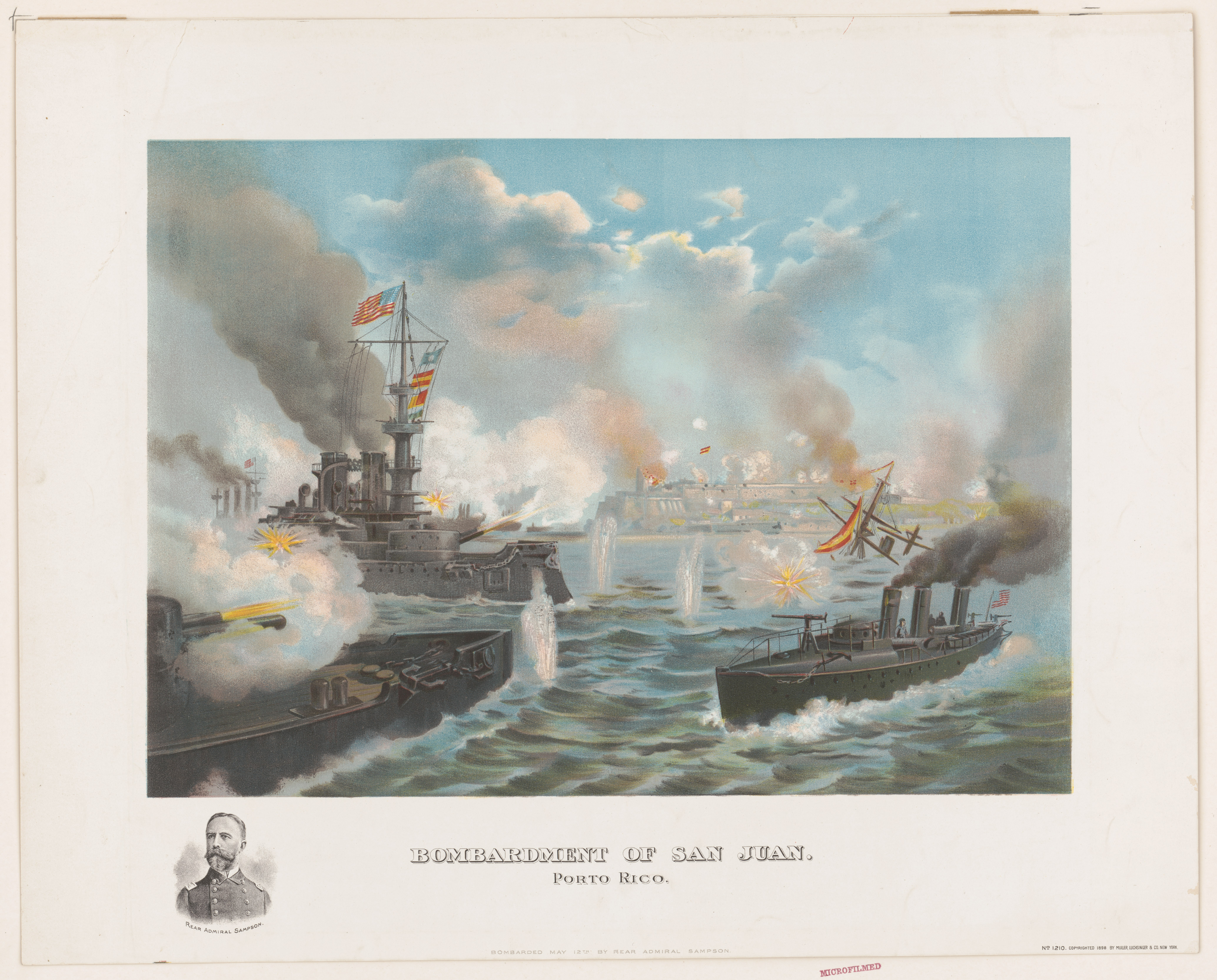 Title: Bombardment of San Juan, Porto [sic] Rico Abstract: U.S. warships under command of Rear Admiral Sampson bombarding San Juan, Porto Rico, May 12 1898. Head-and-shoulders portrait of Rear Admiral Sampson in left lower corner. Physical description: 1 print : chromolithograph. Notes: No. 1210.; Copyright by Muller, Luchsinger & Co., New York.